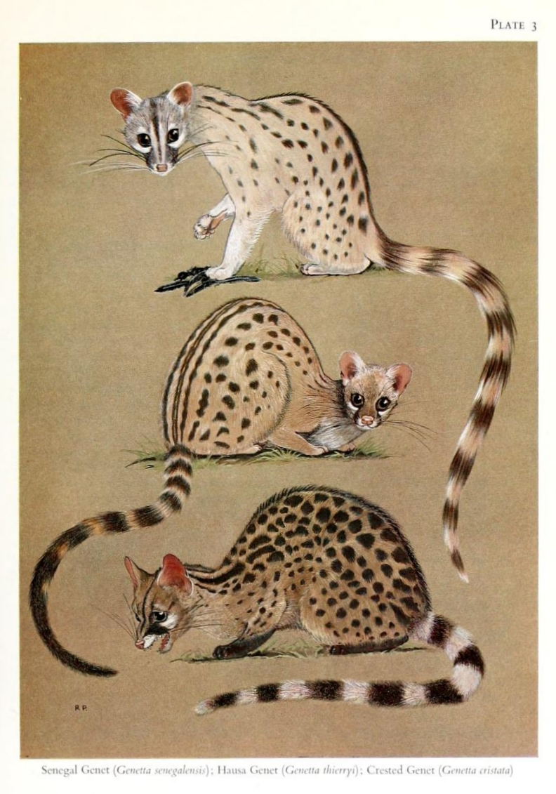 Plate 3 Genetta